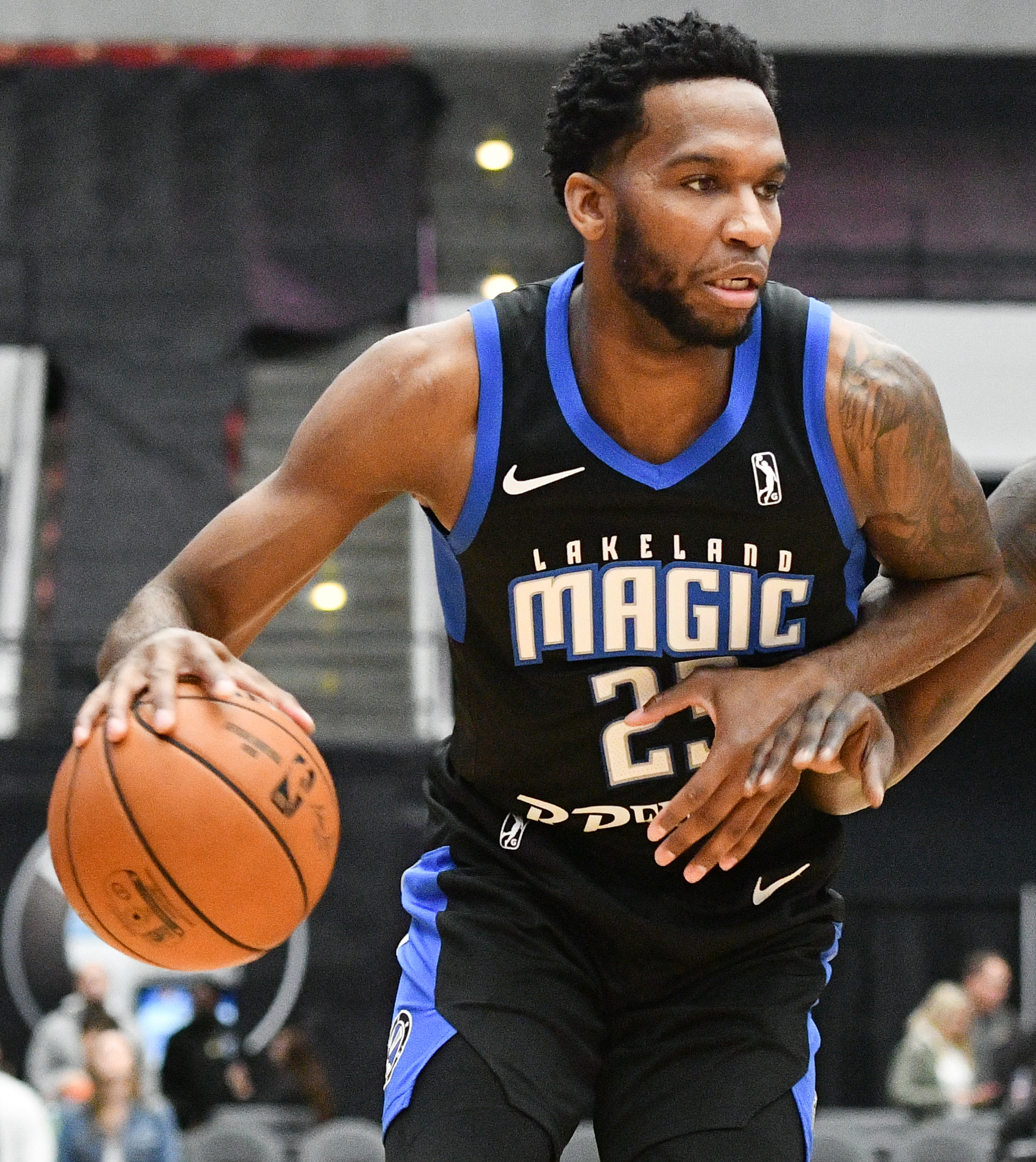 Vic Law, Rakim Sanders. Lakeland Magic vs Erie BayHawks. RP Funding Center. Lakeland, Fla. Nov. 17, 2019. (Photo by Tom Hagerty.)